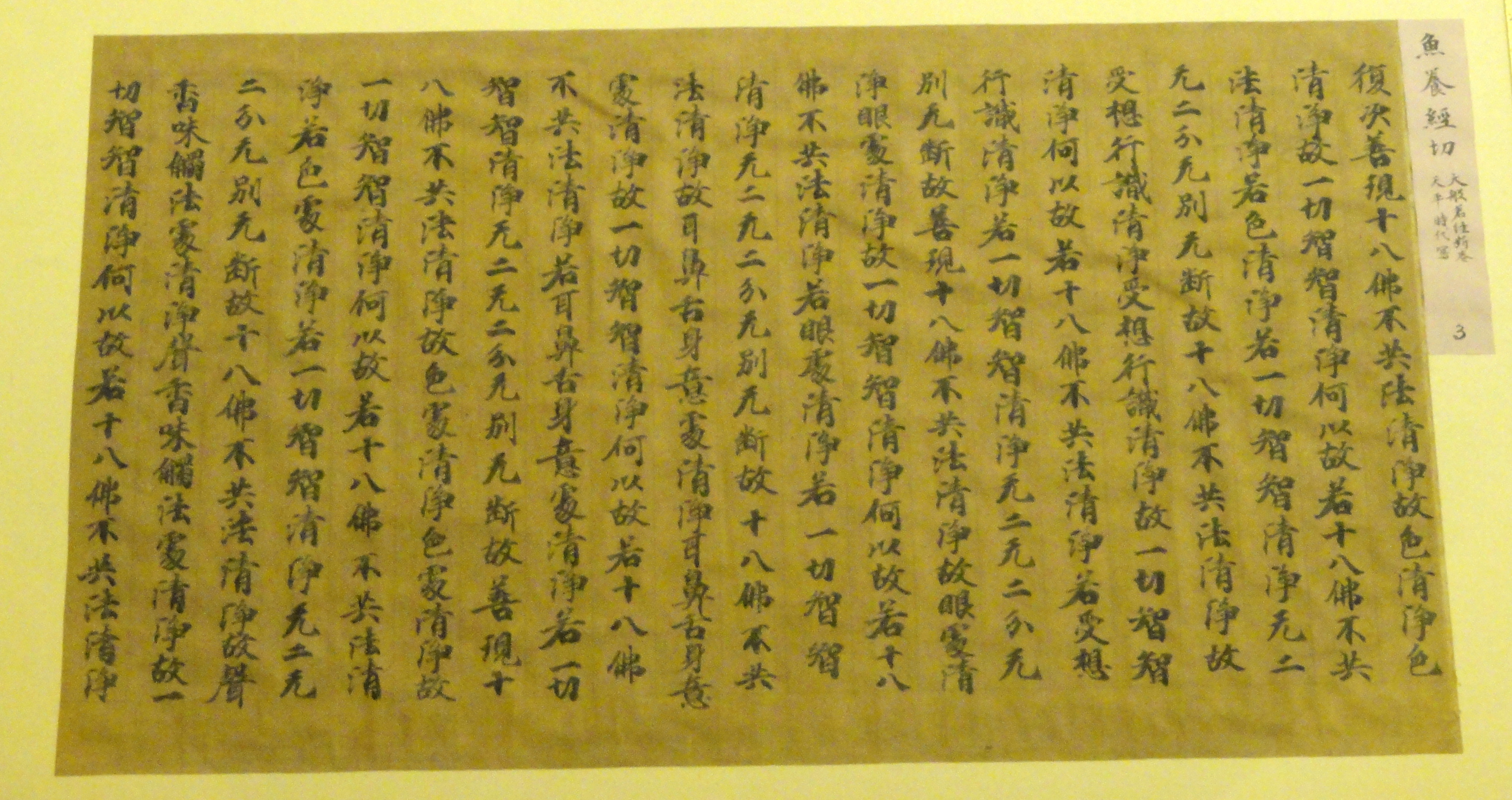 Exhibit in the Nelson-Atkins Museum of Art, Kansas City, Missouri. This artwork is old enough so that it is in the public domain, and the museum permitted photography without restriction. I took this photograph and release it into the public domain.